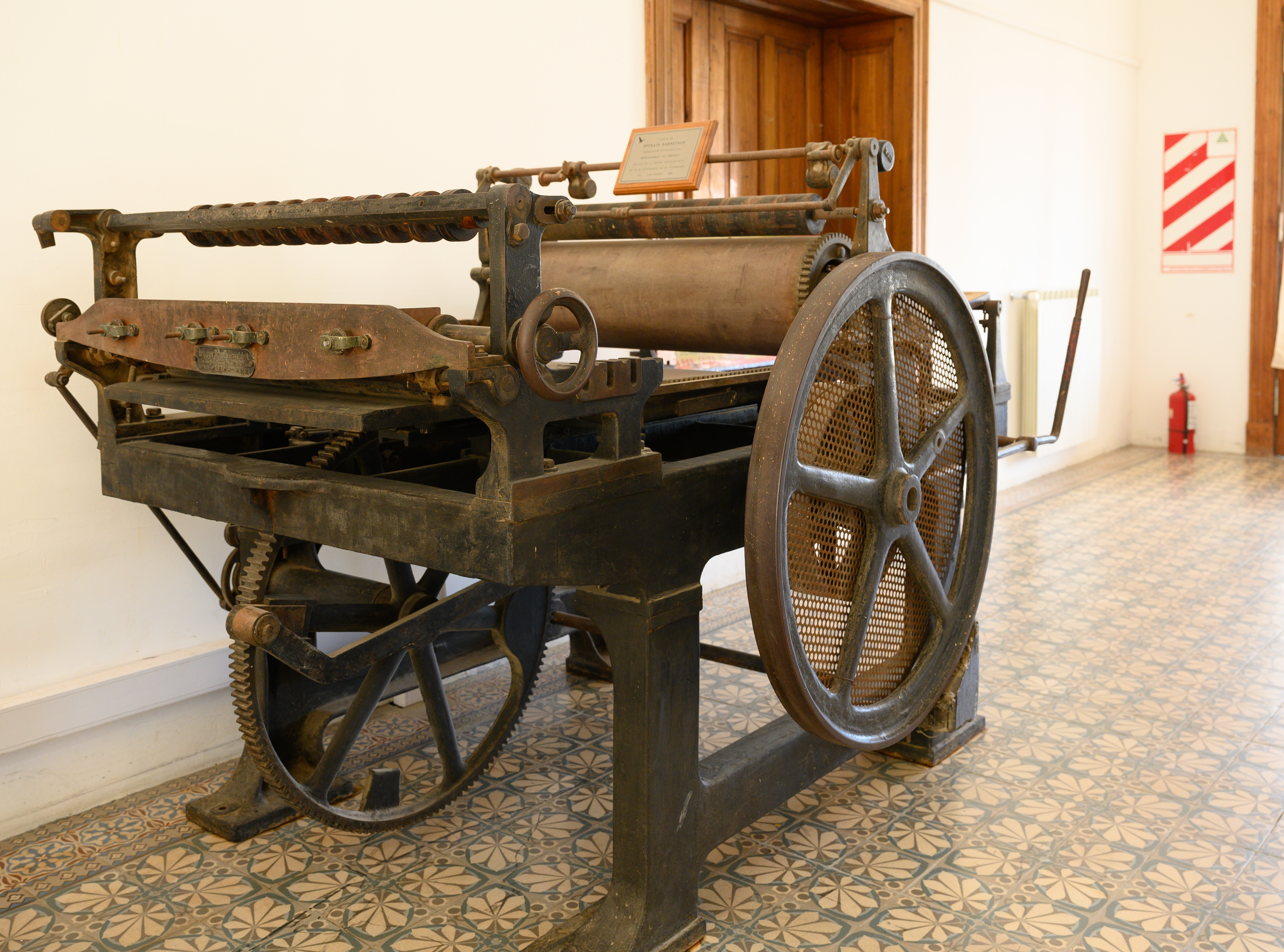 Old Printingmachine (ca. 1900)